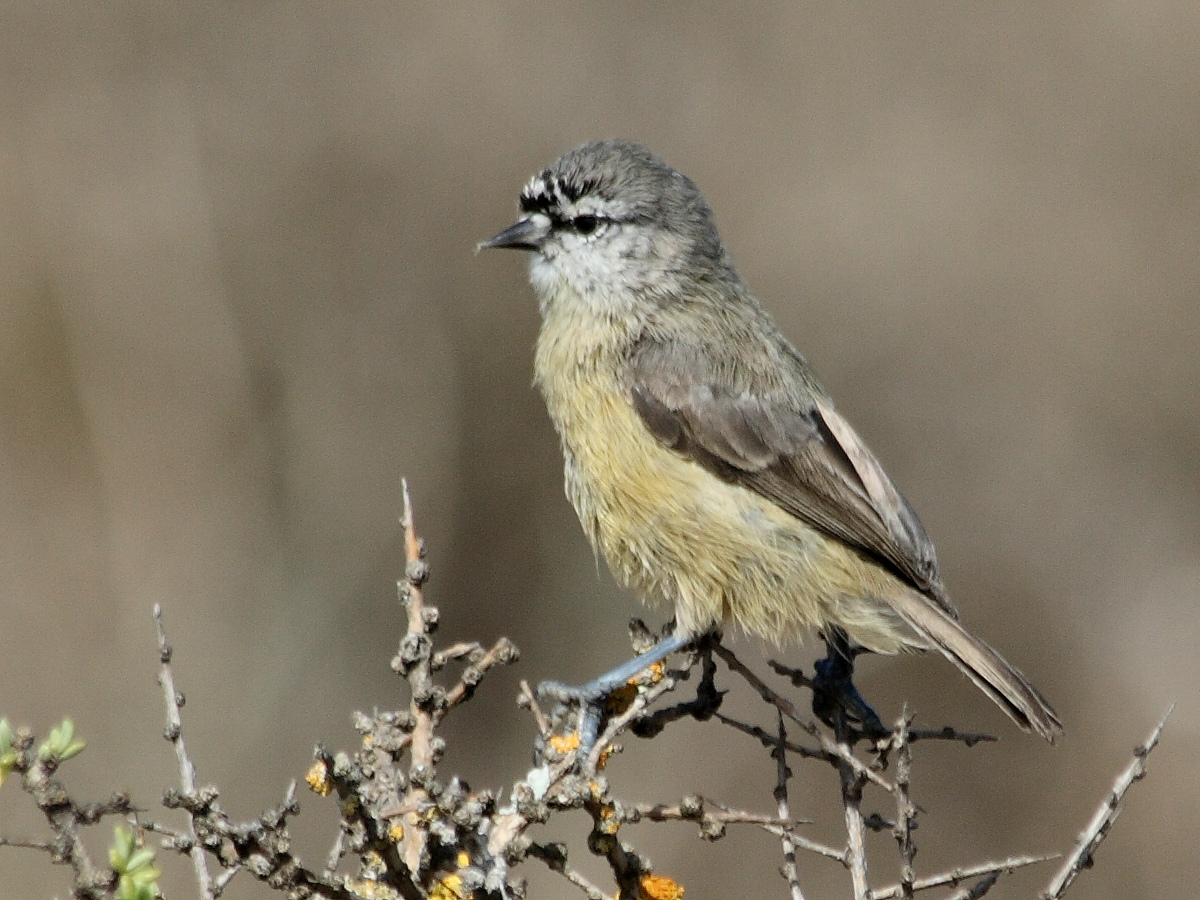 Aka Cape Penduline-Tit. Location: Elands Bay, Western Cape, South Africa.